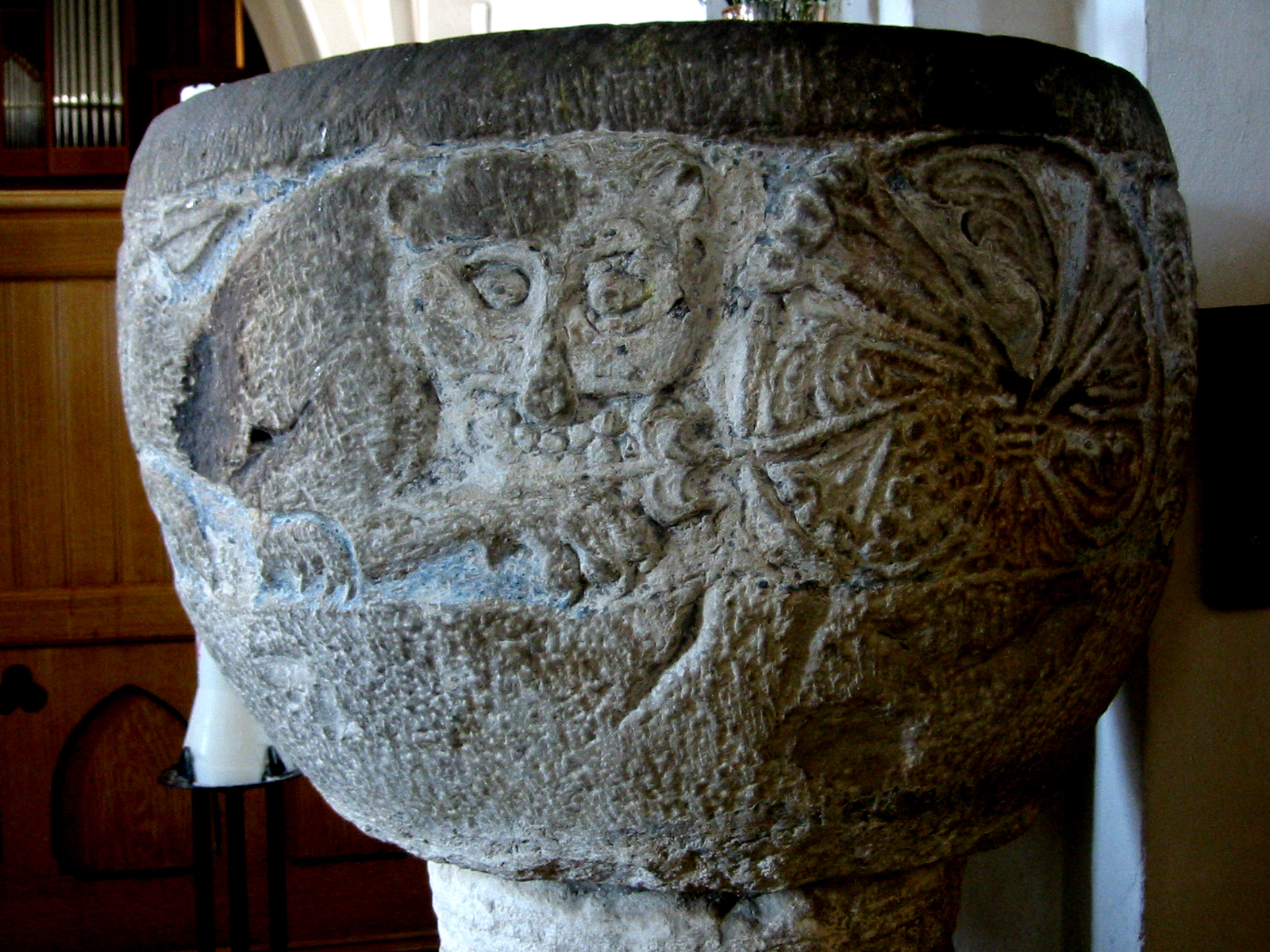 Baptismal font from Oxie church in Sweden about 1150.